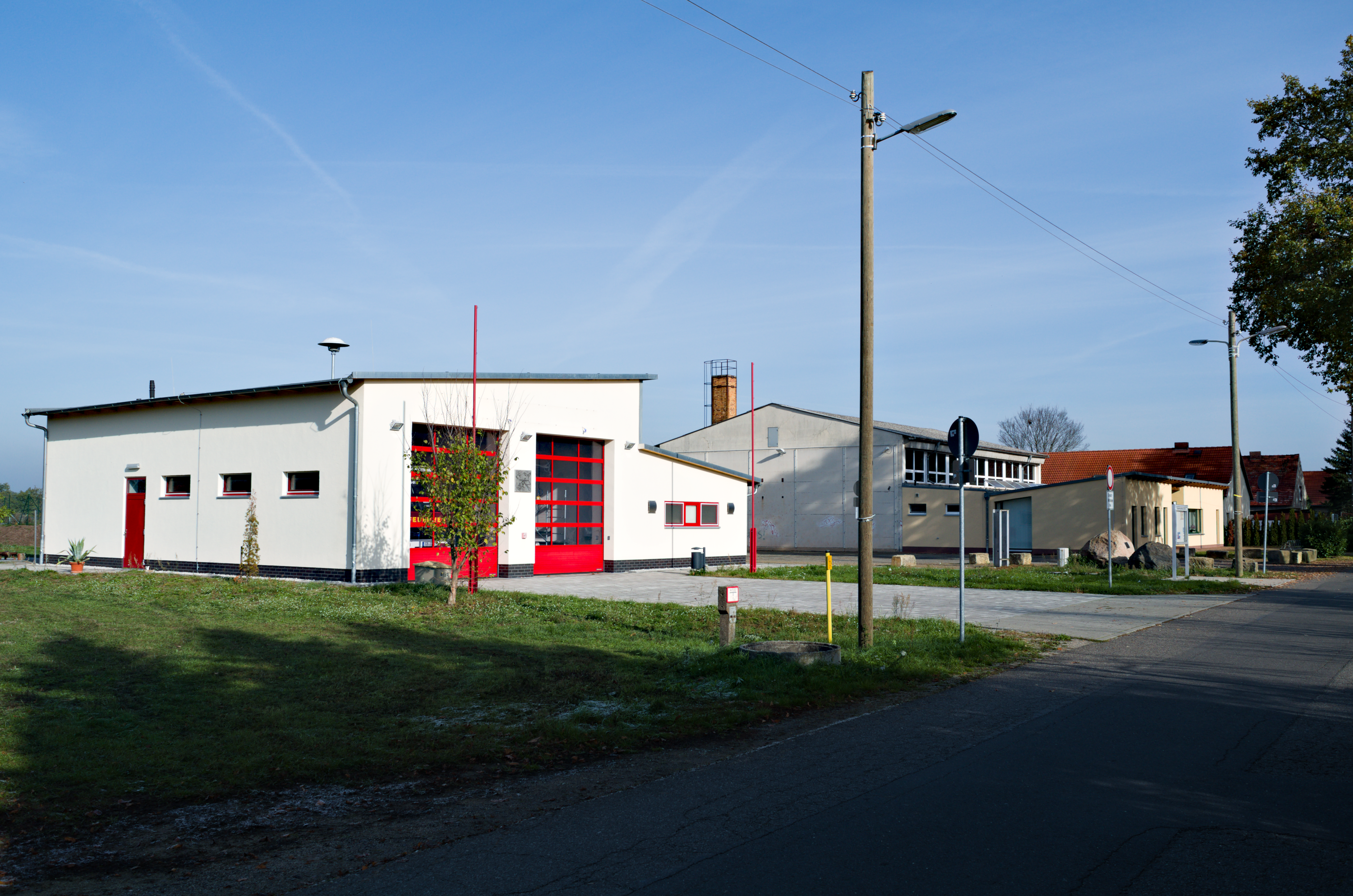 Fire station of the voluntary fire department (left) as well as the community center at Am Park in Cottbus-Kahren.